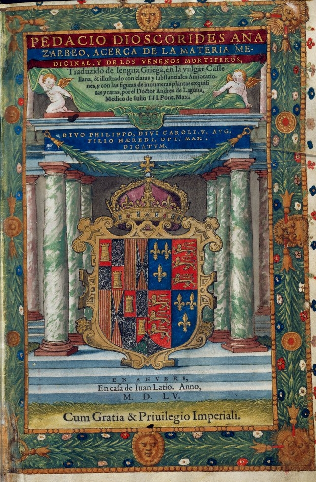 Andres Laaguna, translation of Dioscorides, 1555, hand-coloured title page. National Library of Spain copy